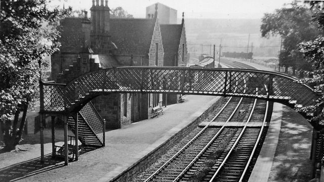 Beauly Station. View SE, towards Inverness; Inverness - Dingwall - Wick/Thurso ('Far North') line. In spite of appearances, the station closed 13/6/60 (goods 25/1/65). However, the line has remained very much alive and Beauly station was reopened on 15/4/02.